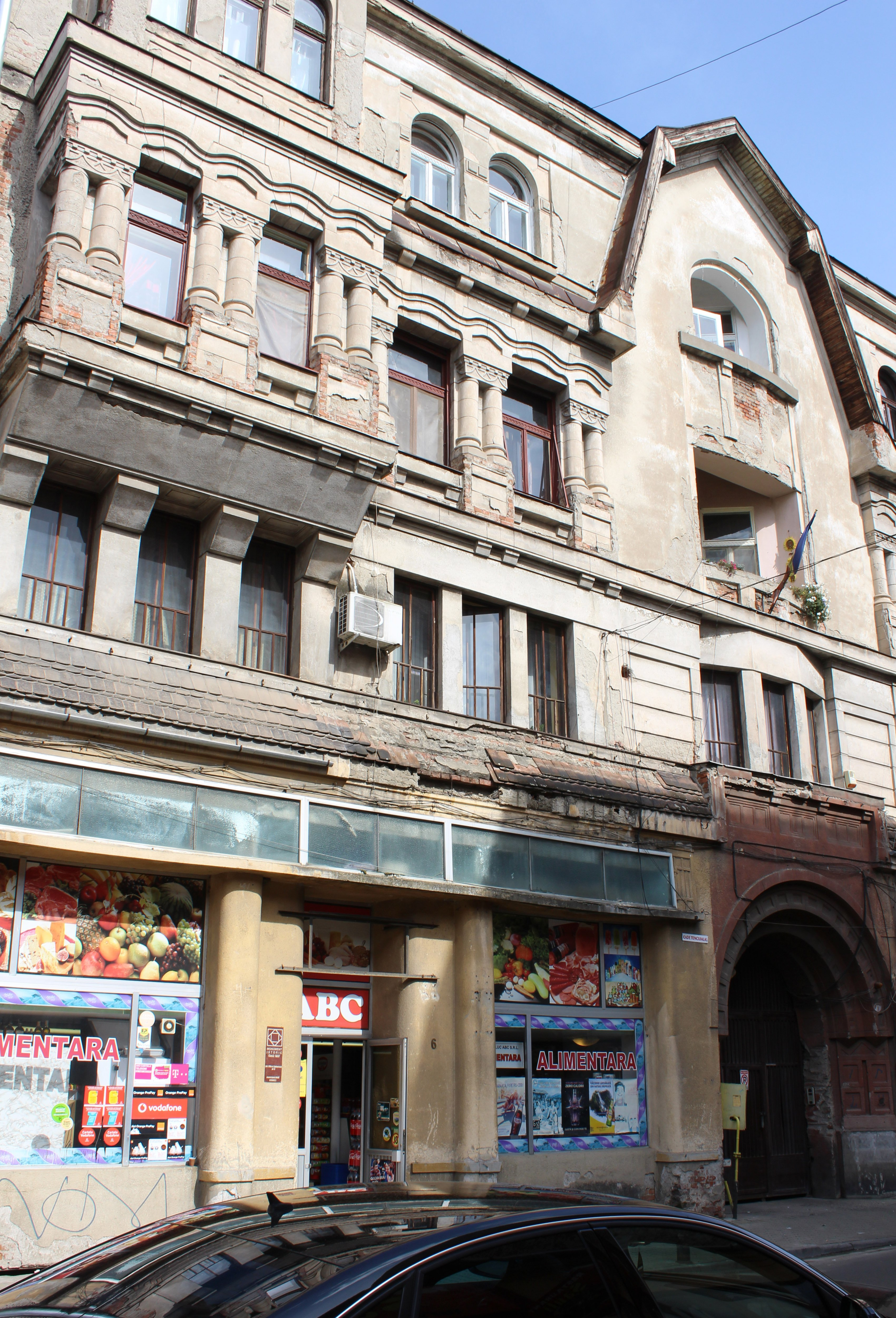 The parish house of the United Romanian Church, Arad, Romania, built 1897